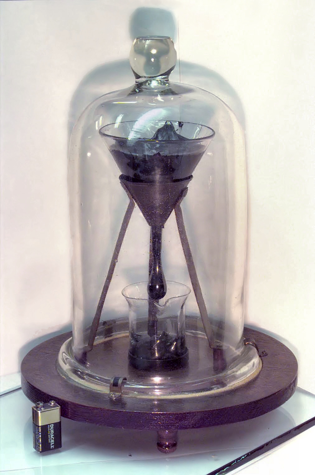 Picture of the Pitch Drop Experiment at the University of Queensland, with 9-volt battery for size comparison